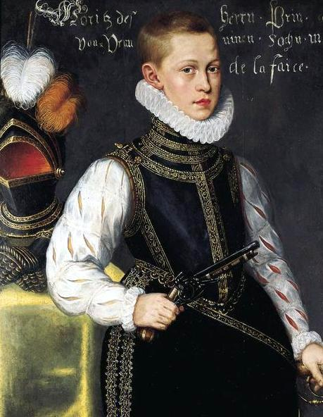 Maurice of Nassau in 1578-79